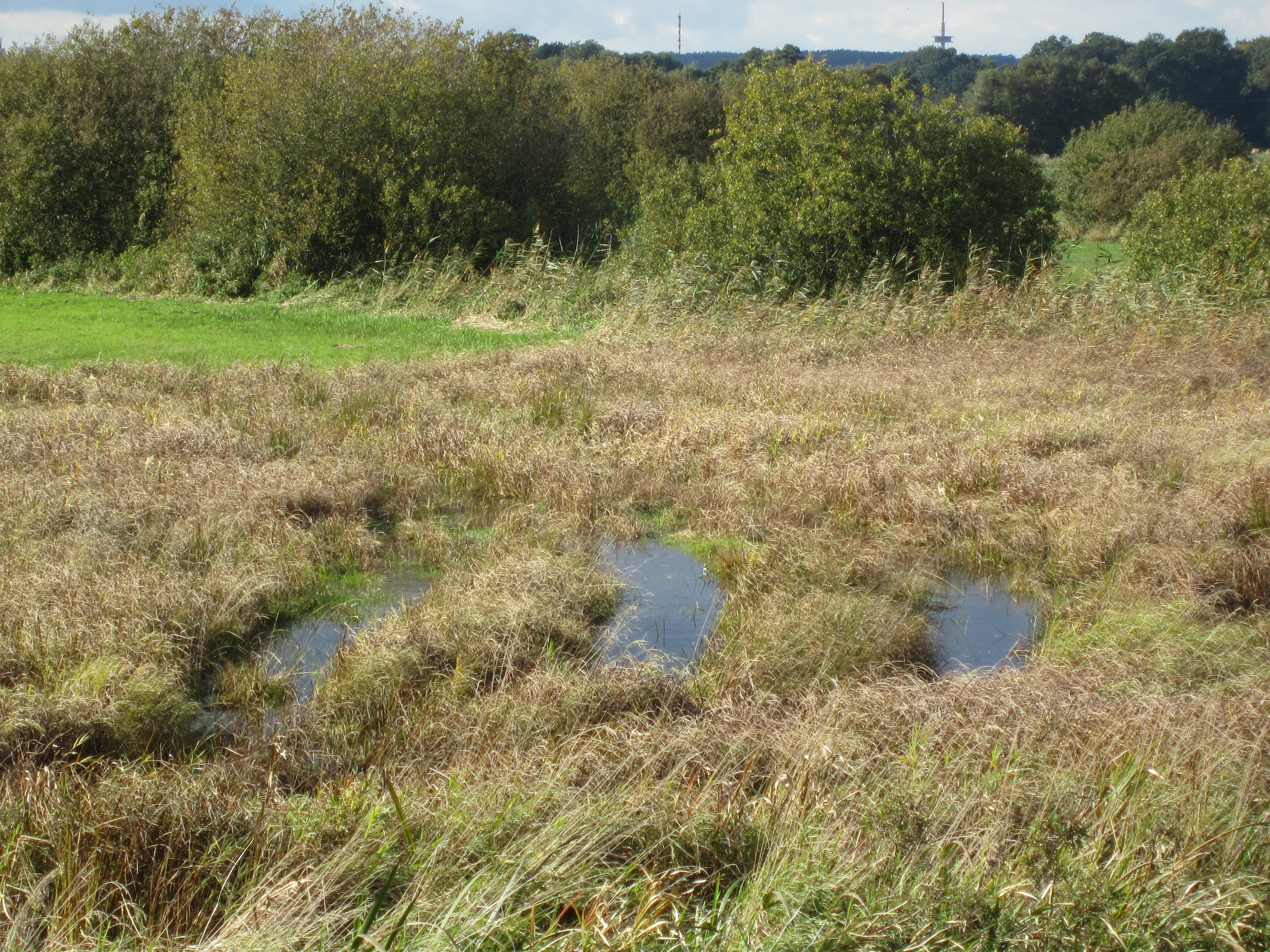 Wet meadow in the nature reserve "Westliche Dümmerniederung" in Lower Saxony